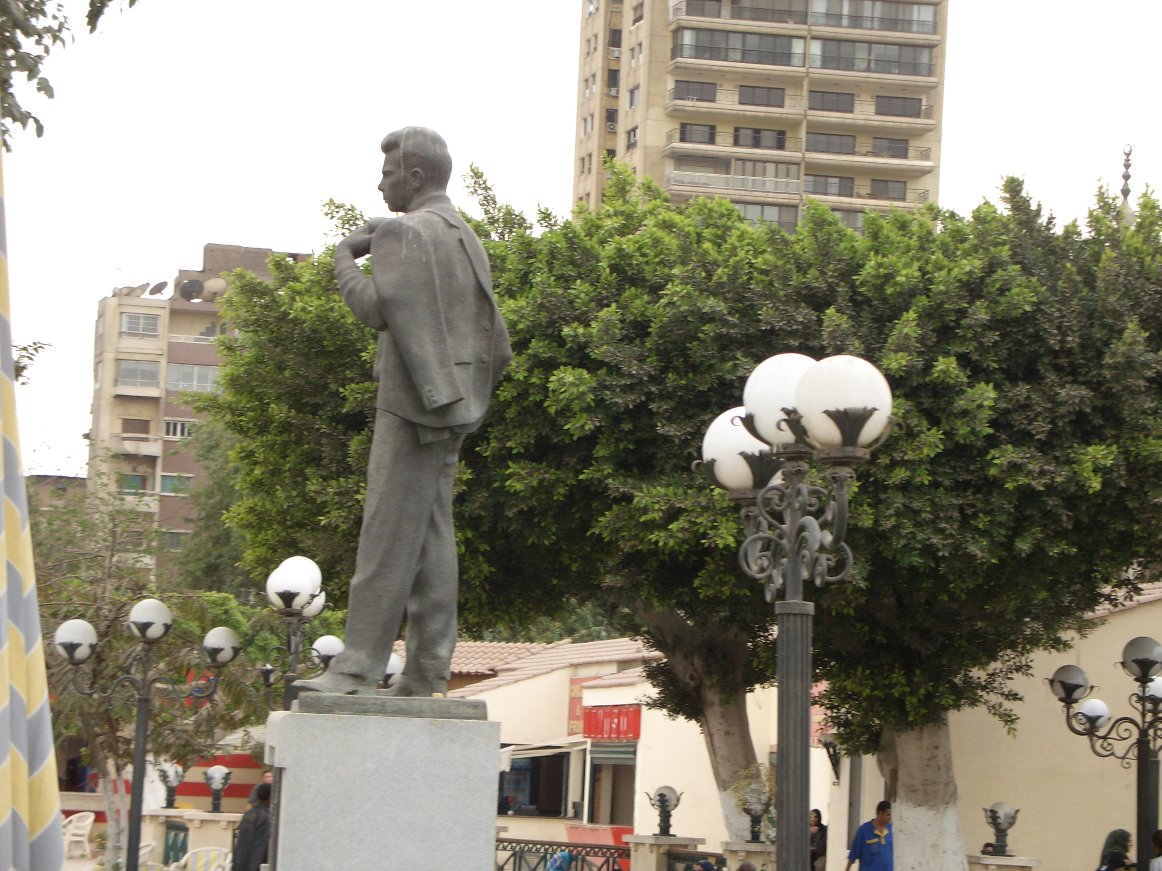 Saleh Selim Statue in Alahly Club in Zamalek, Cairo.